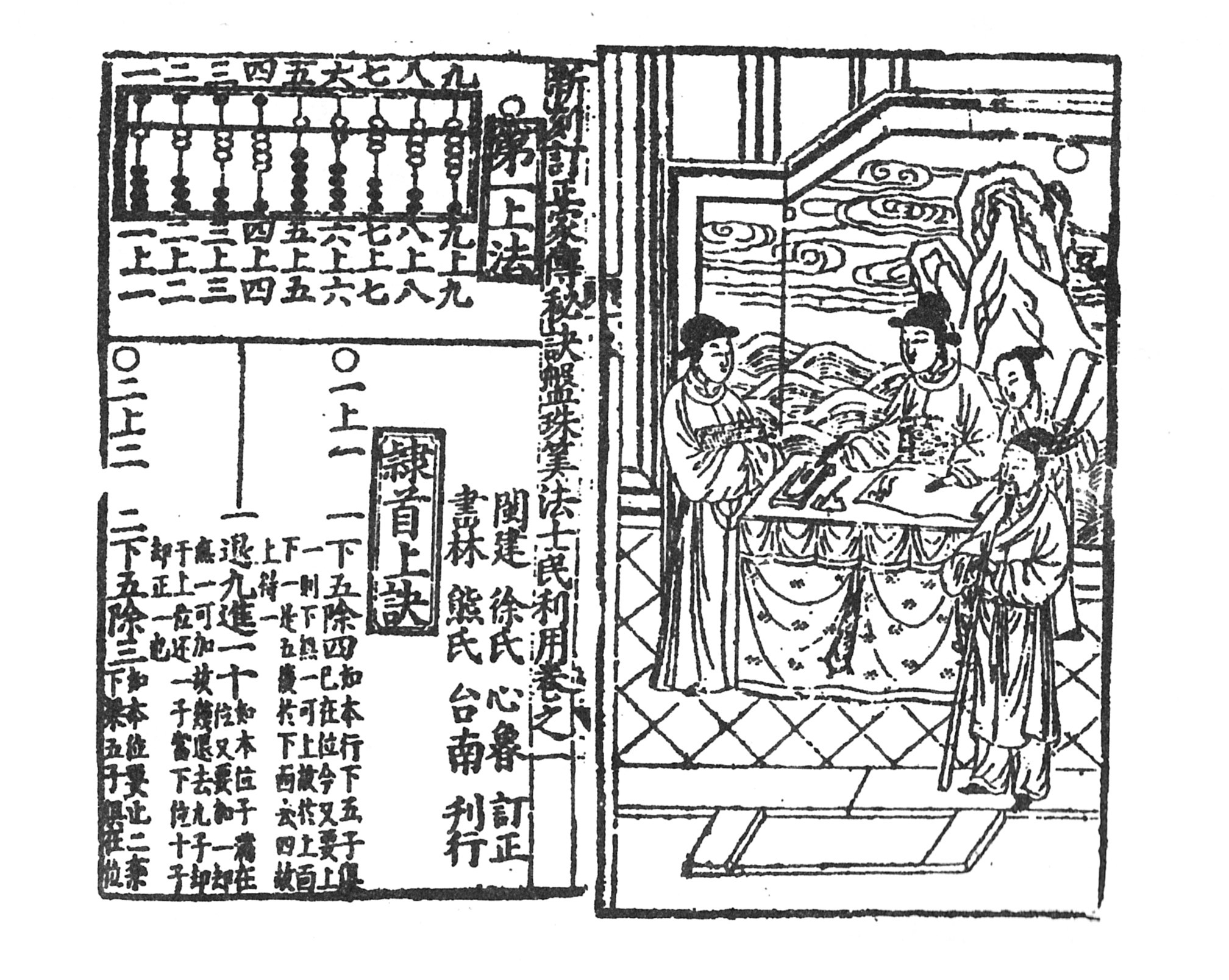 Introduction to Abacus